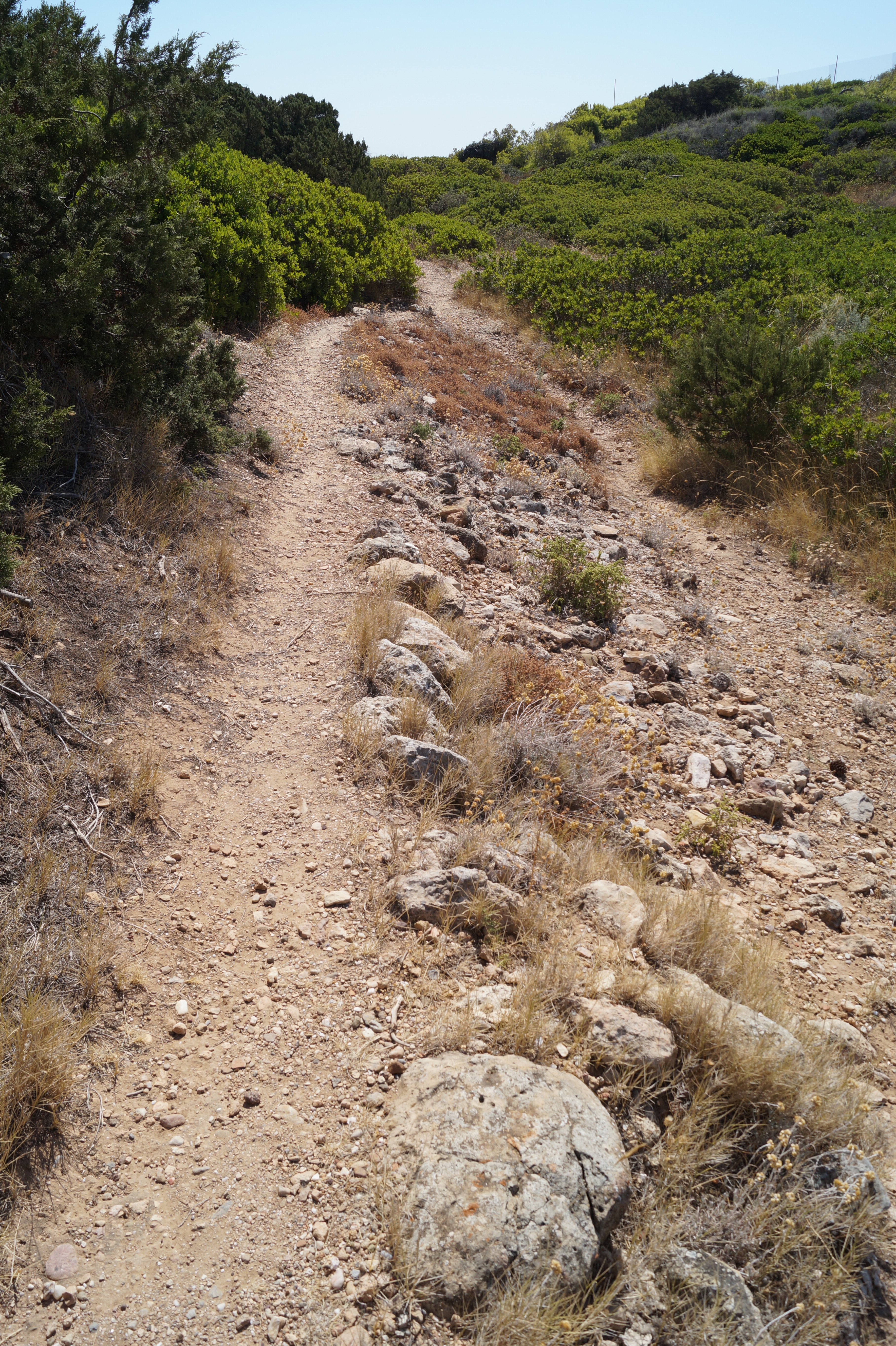 Rafina, Attica, Greece: Defensive wall on the south-west of the archaeological sites of Askitario.